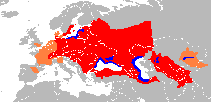 Distribution map for Silurus glanis; native occurrence (red) - occurrence in coastal waters (blue) - introduced (orange); based on and Uwe Hartmann: Süßwasserfische (ISBN 3-8001-4296-1